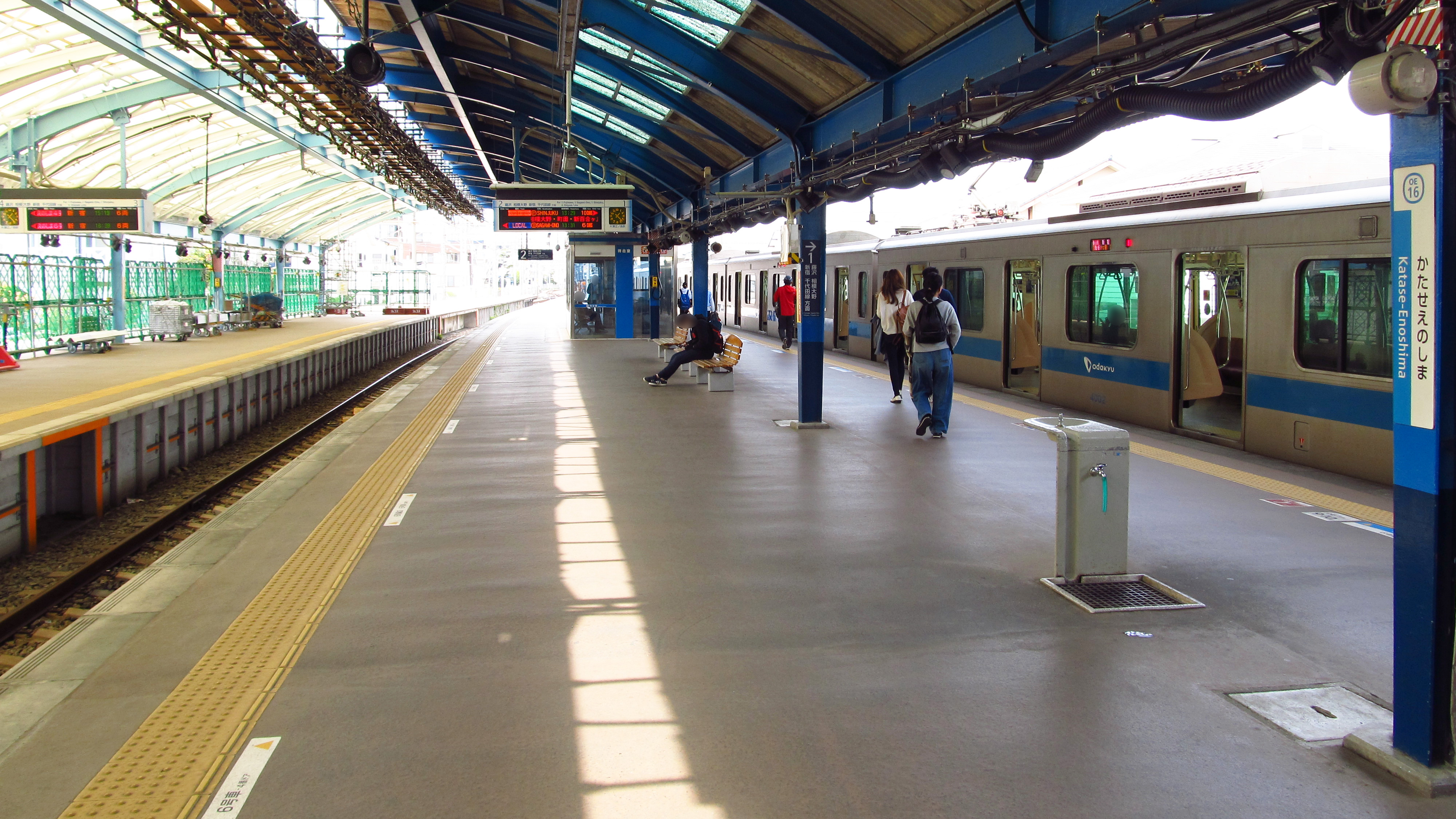 The platforms at Katase-Enoshima Station on the Odakyū Electric Railway Enoshima Line in Fujisawa city, Kanagawa prefecture, Japan